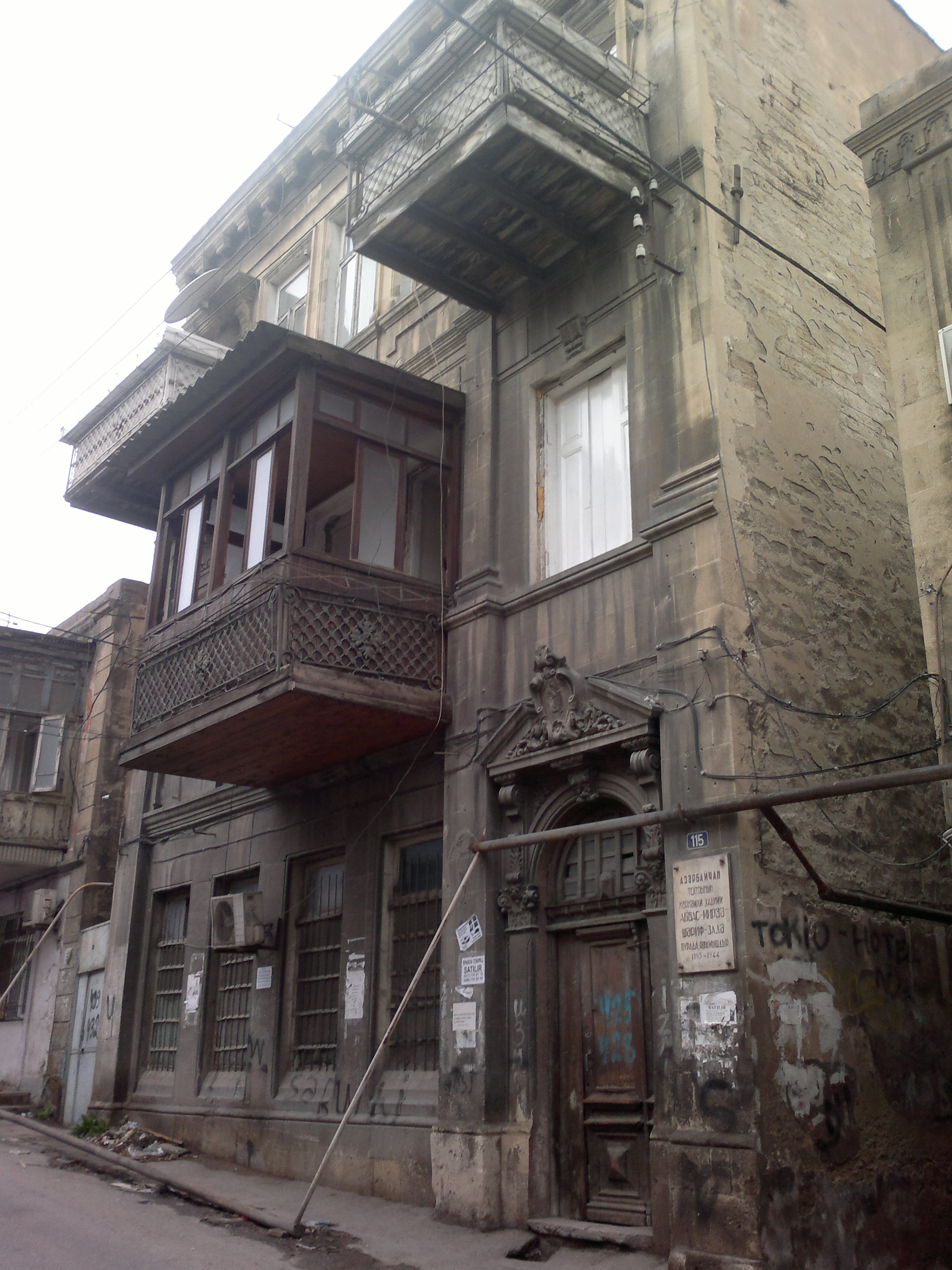 Building of 115 Mirza Agha Aliyev Street